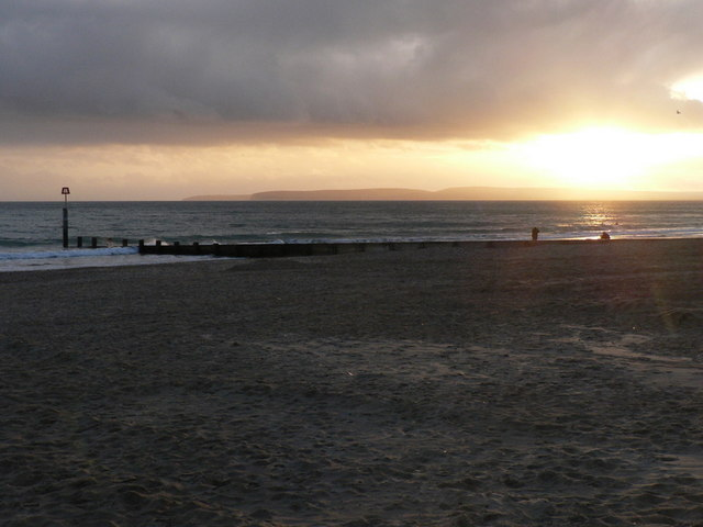 Boscombe: a small section of the miles of sandy beach at Bournemouth Bay and looking beyond the groyne, the first one west of the pier and bay at the Purbeck Hills just as the sun starts to set.